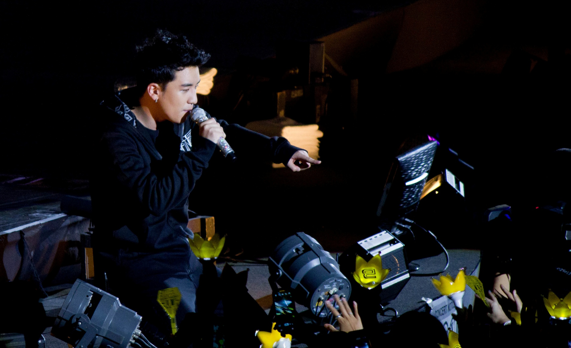 Seungri performing on Alive World tour